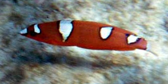 Description Coris gaimard (juvenile) DateSource photo - Bryan HarryPermission (Reusing this file) PD Other versions Coris_gaimard_juvenile_by_NPS.jpg Coris gaimard (juvenile)